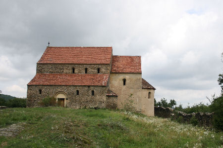 Cisnadioara, Romania